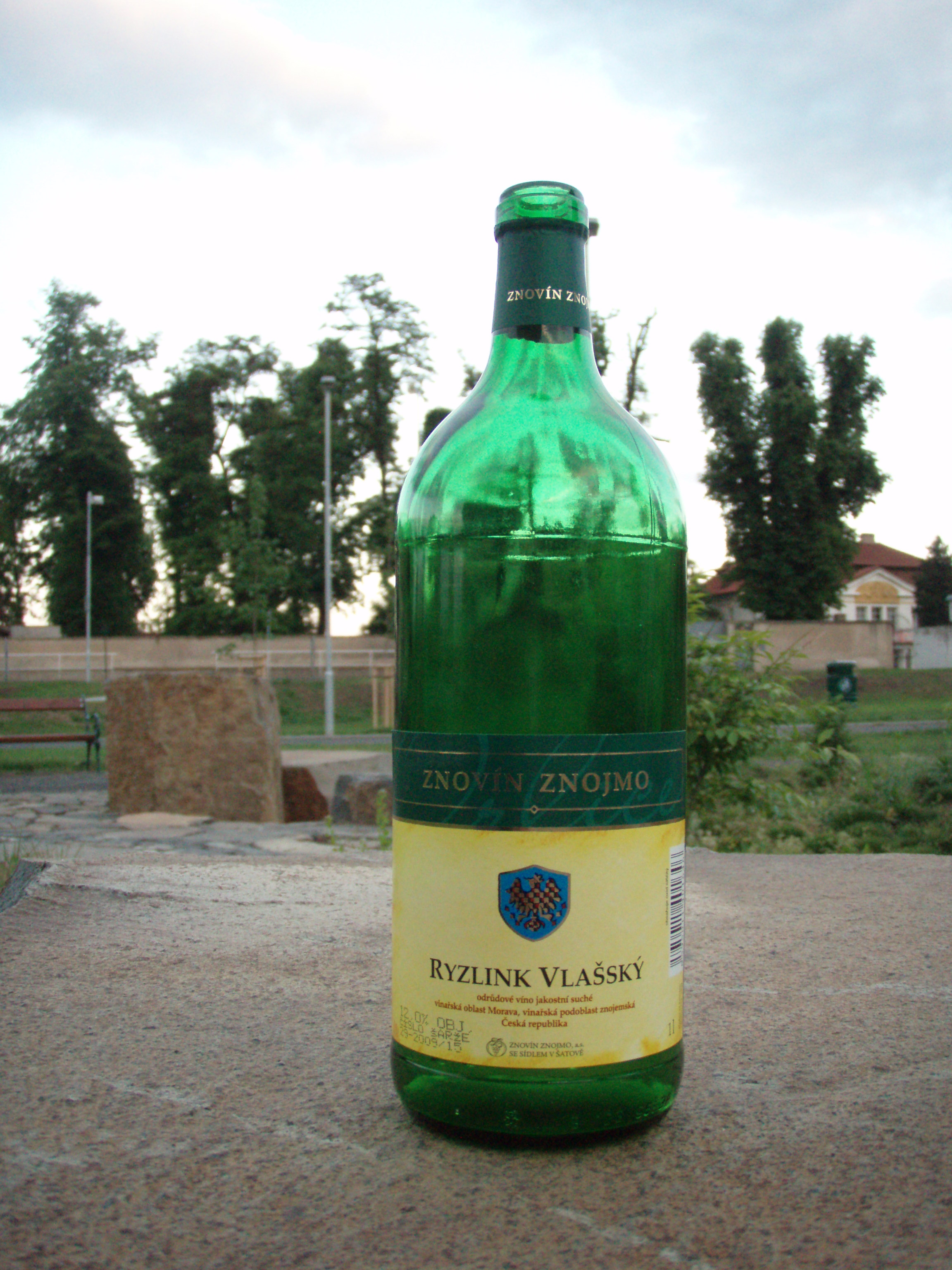 Returnable wine bottle. Znovín Znojmo company, welschriesling.